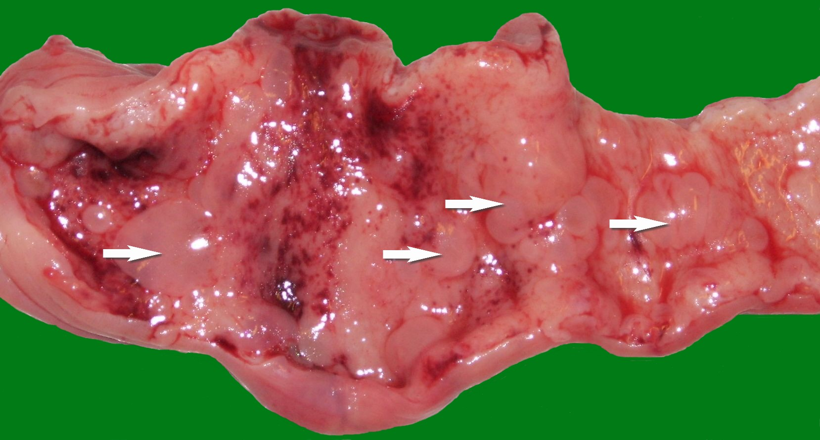 opened uterus of a dog with a glandular-cystic hyperplasia of the endometrium